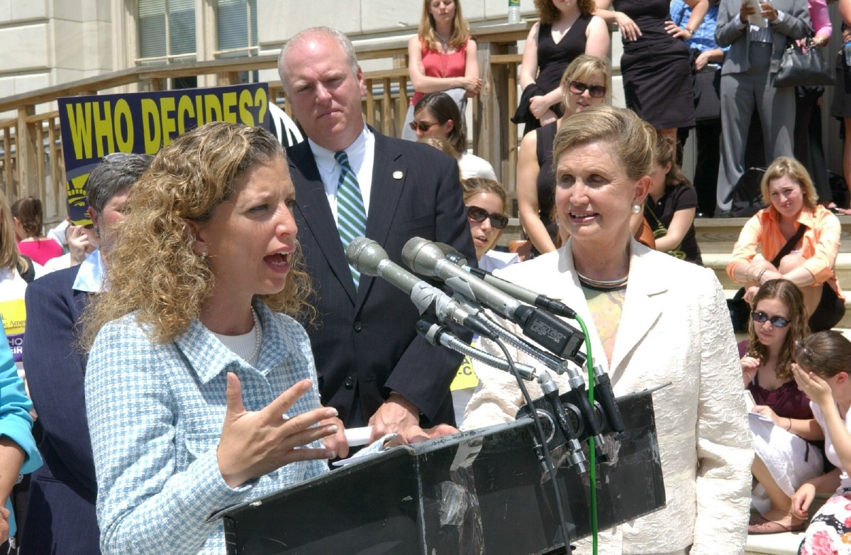 Rep. Debbie Wasserman Schultz is joined by Reps. Joe Crowley and Carolyn Maloney as she speaks out on the need to keep birth control safe and legal.